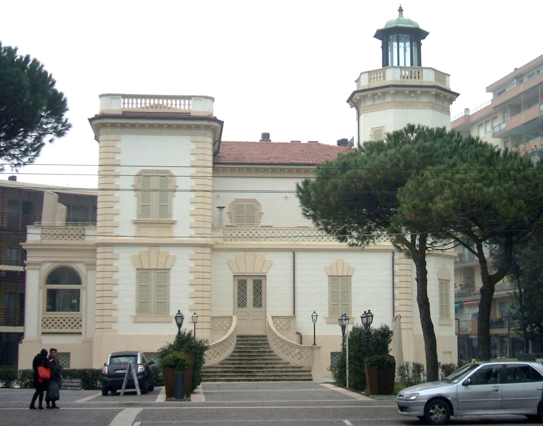 Villino Cacciaguerra in Rimini, Italy